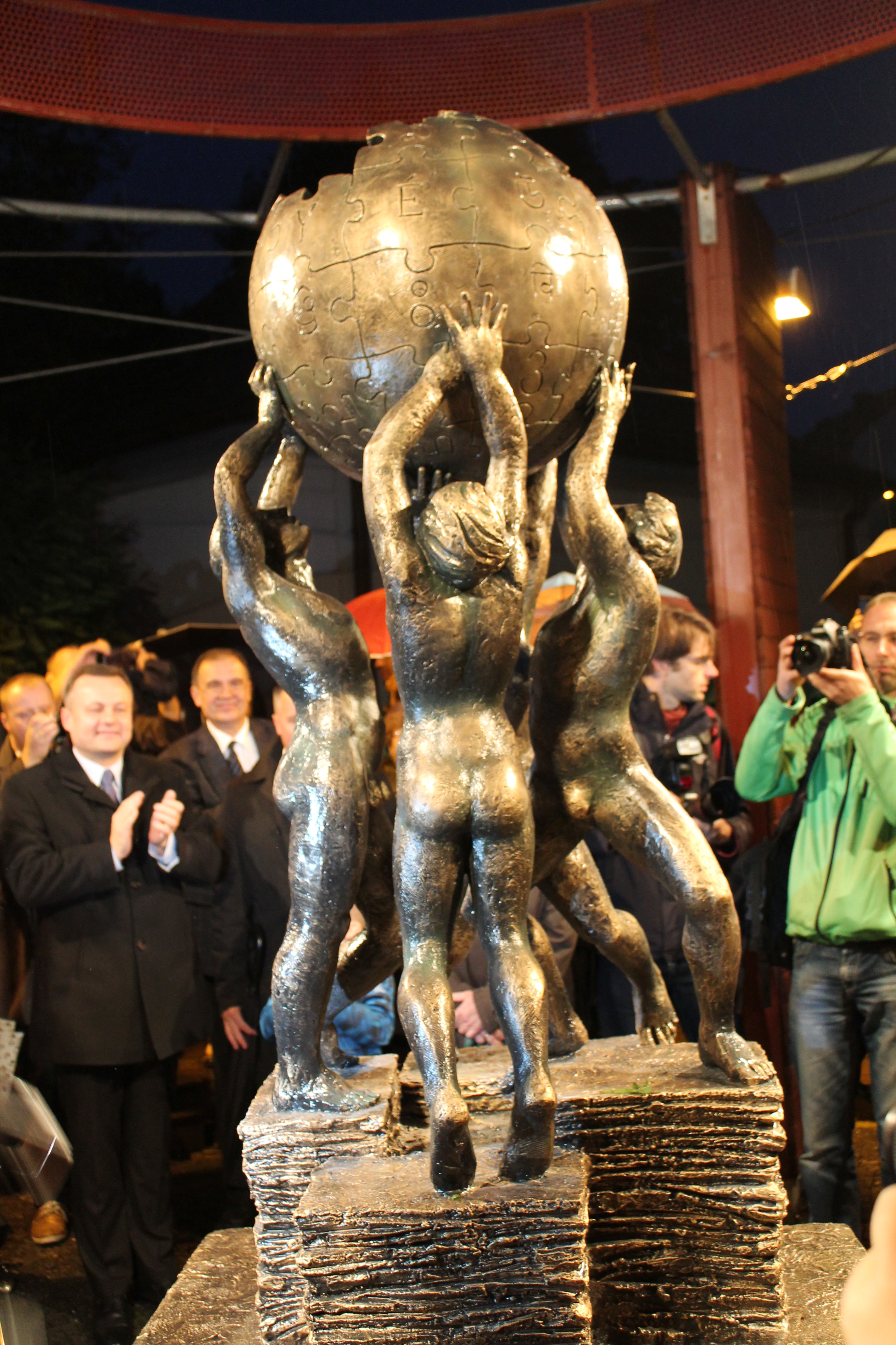 The unveiling of the Wikipedia monument